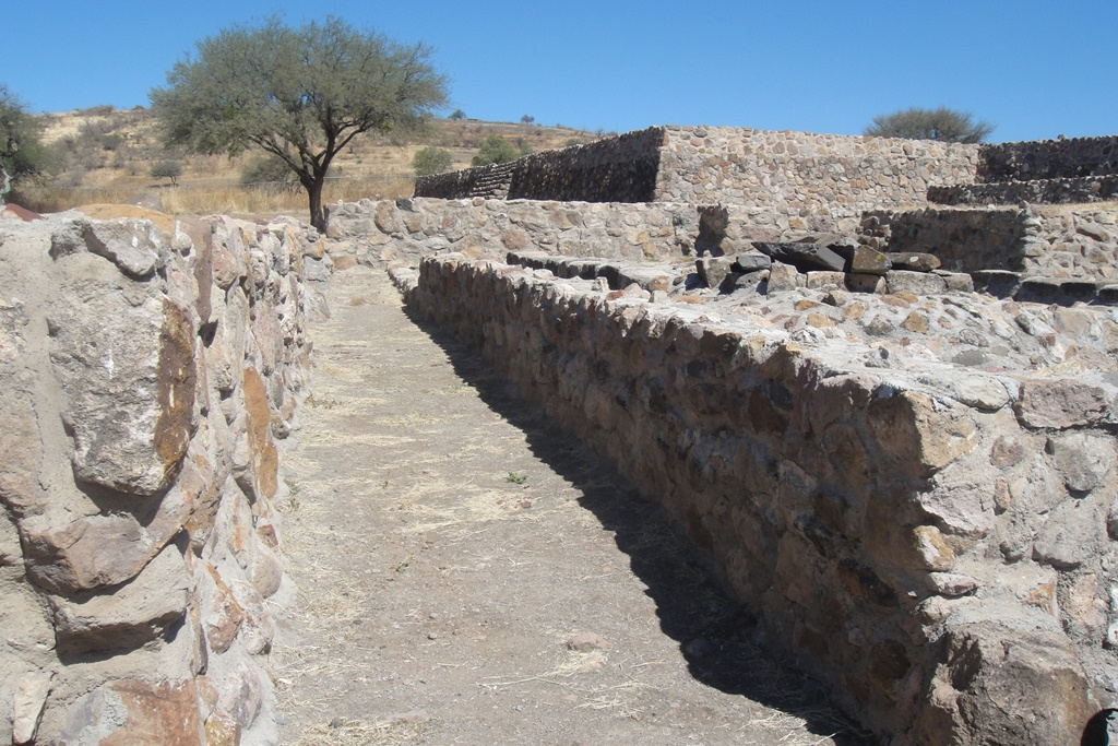 Template:Huandacareo, Main Structure, western side